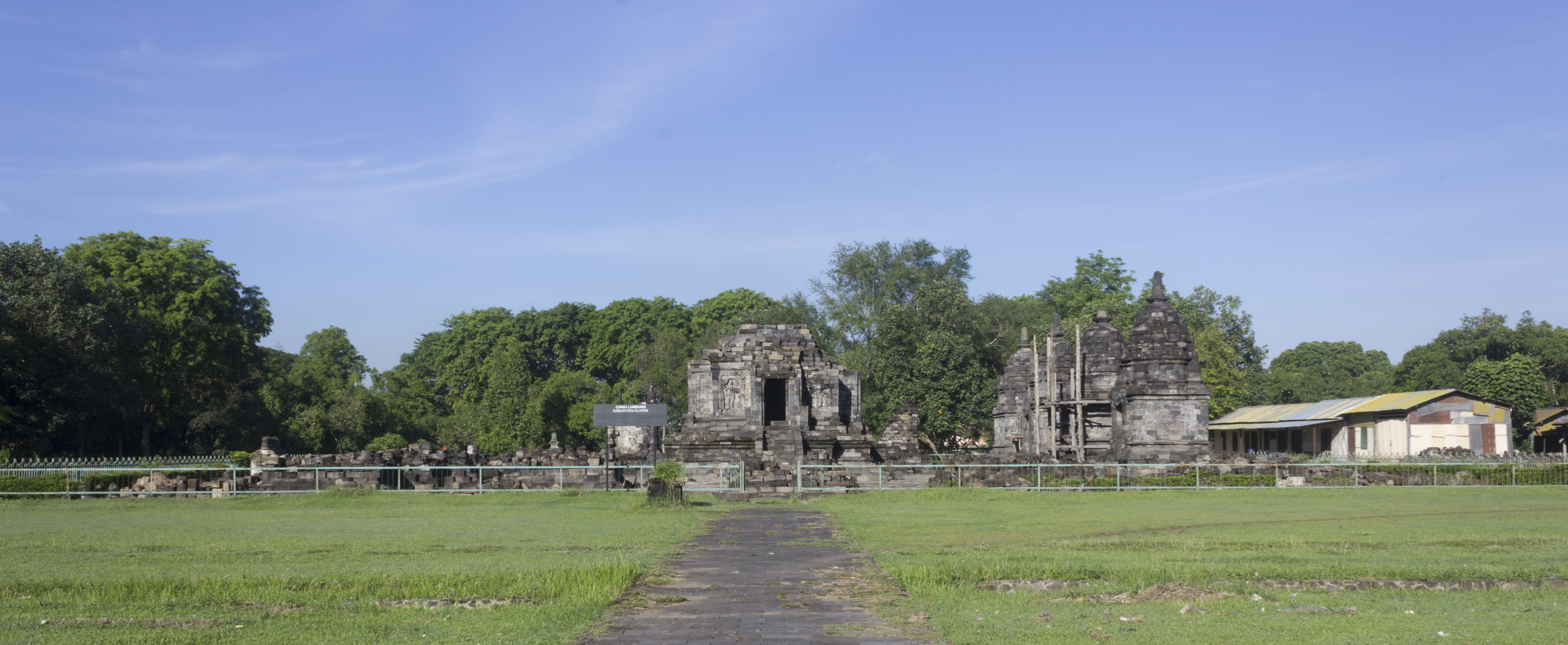 Lumbung temple from a distance, 23 November 2013